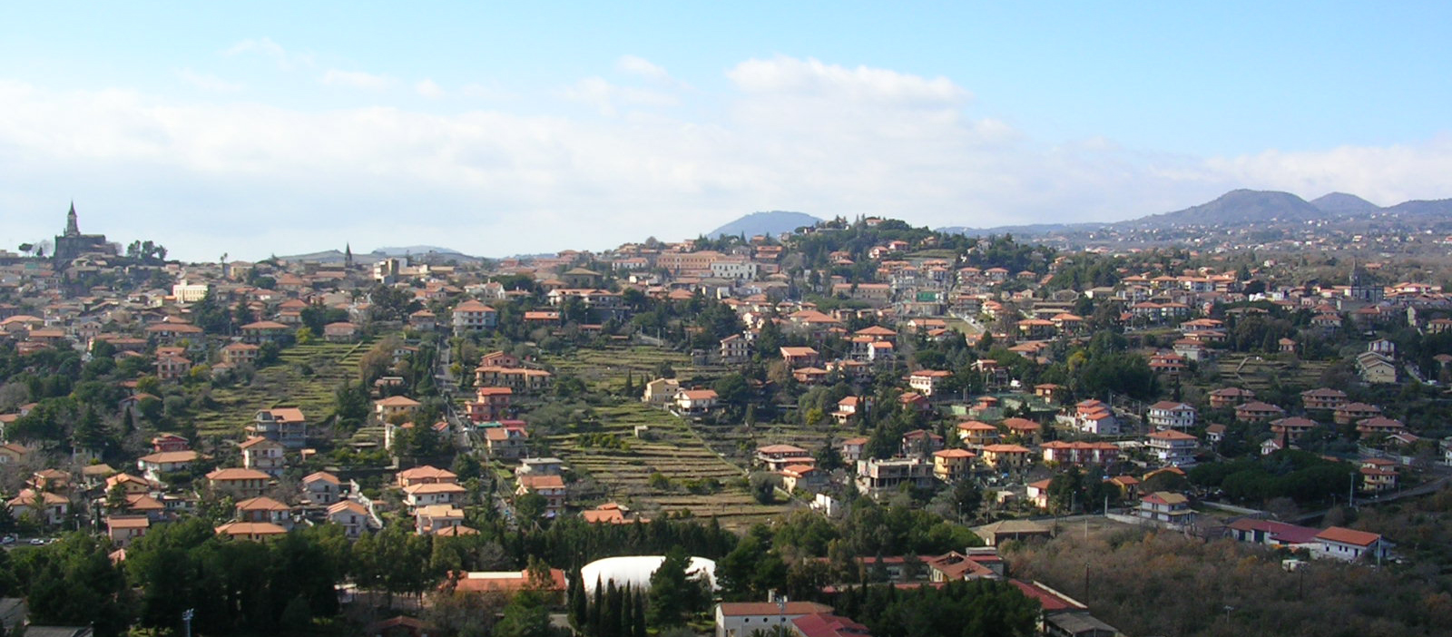 Panorama of Trecastagni - Sicily - Italy